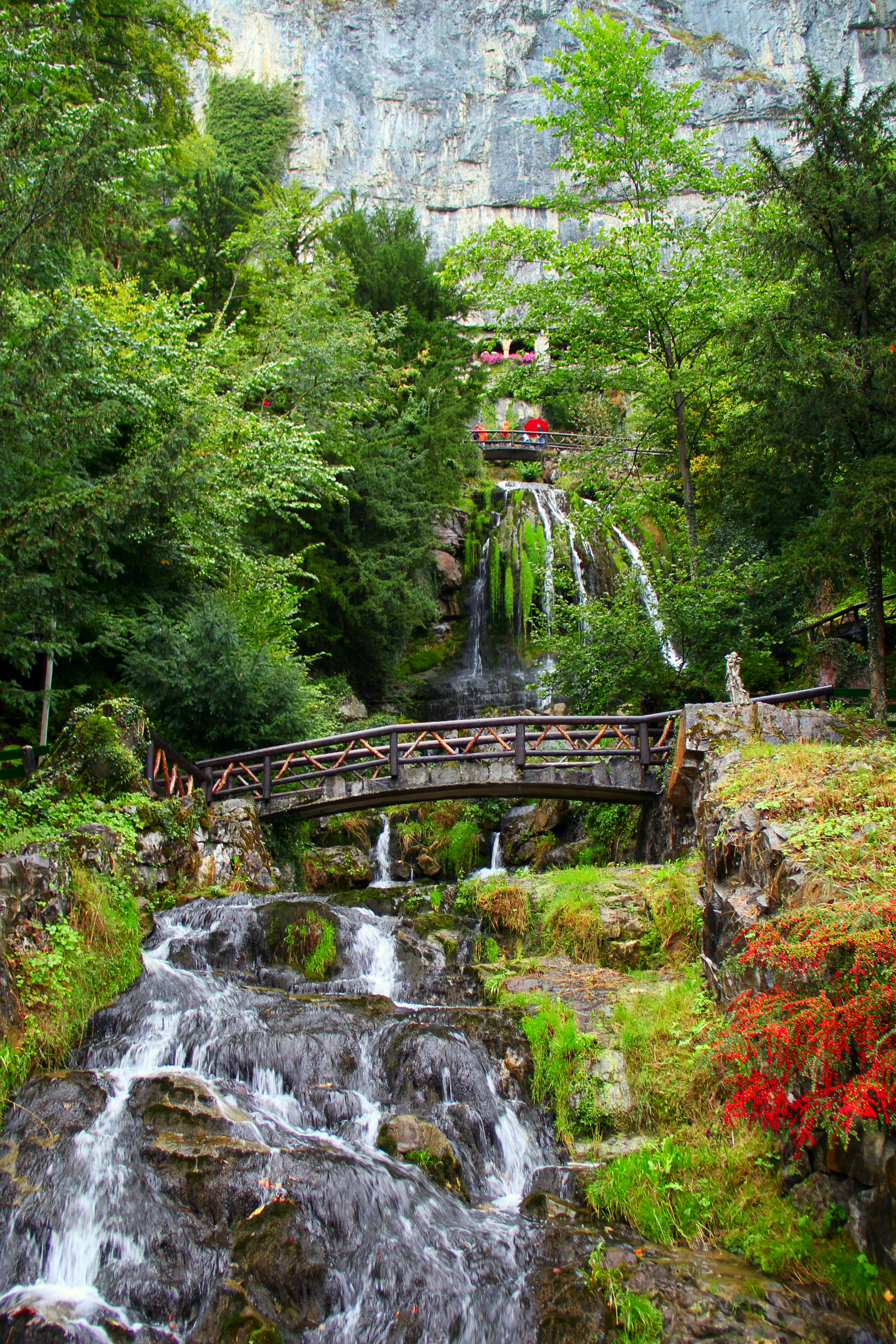 The former Augustinian monastery outside the St. Beatus Caves near Beatenberg, Switzerland.